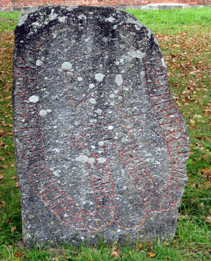 Runic stone U379, Sigtuna, Uppland Sweden